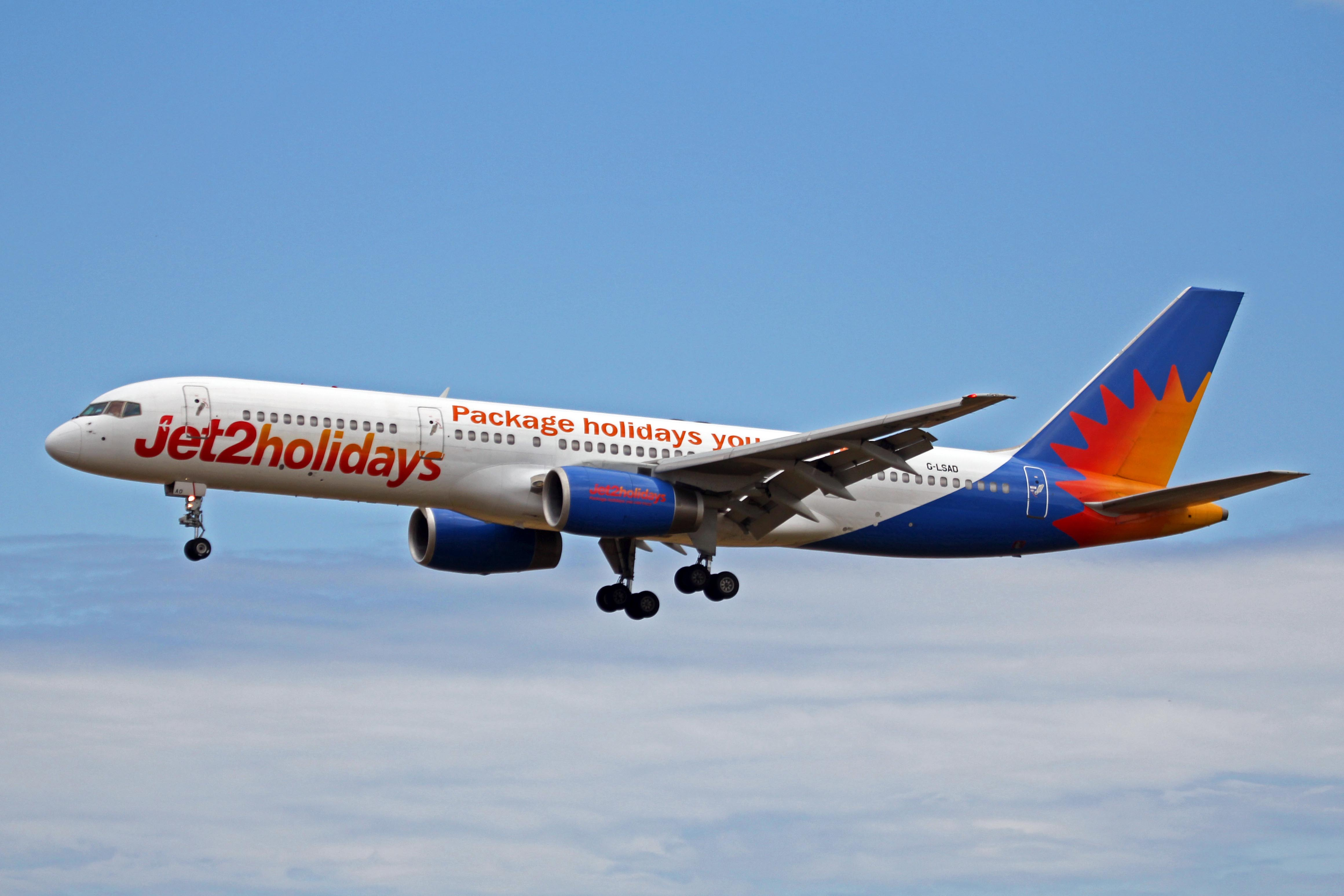 A picture of an airplane (name of it is on the file name).